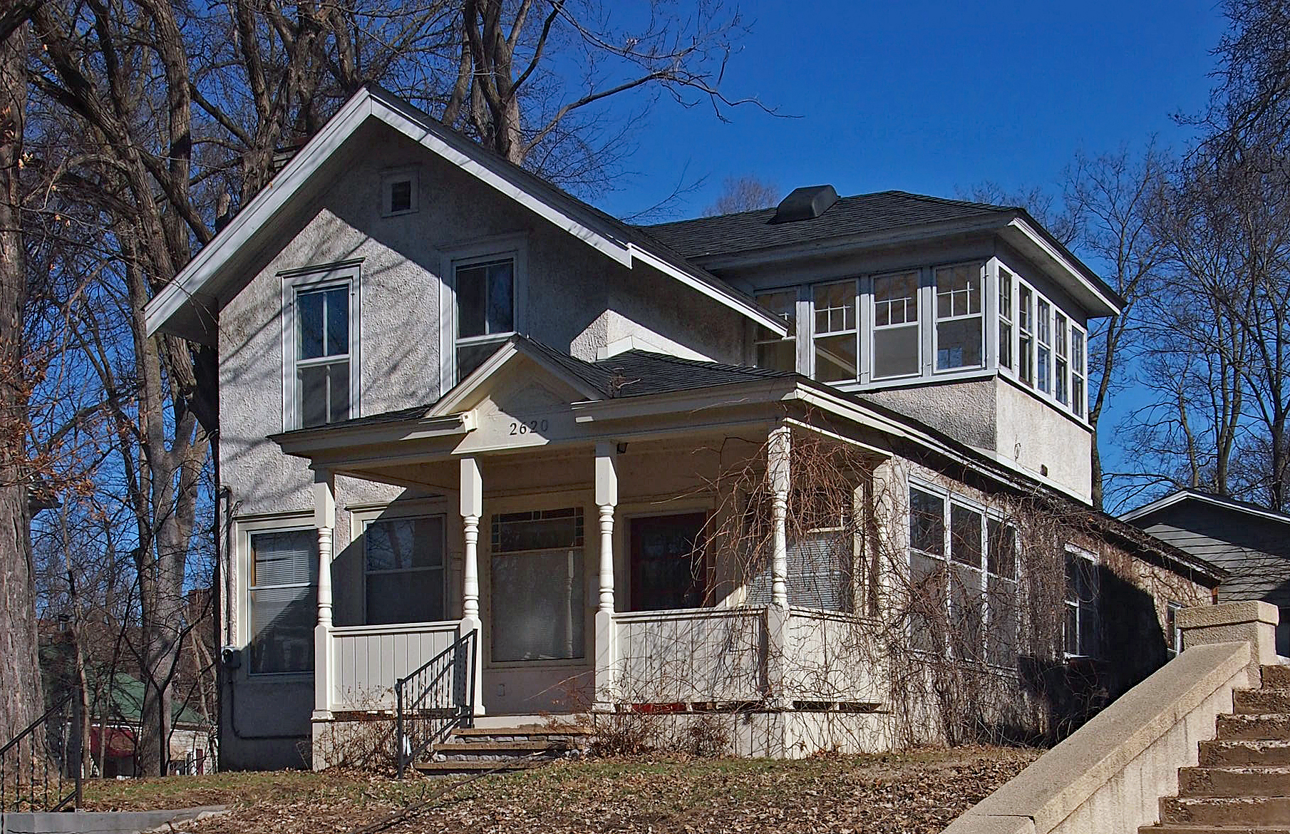 Brenda Ueland House, 2620 44th St W, Minneapolis, Minnesota, USA. Viewed from the southeast.